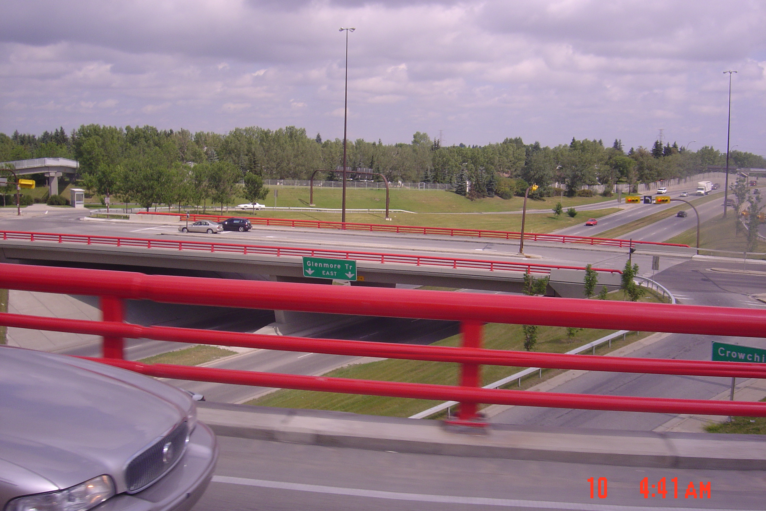 Glenmore Trail at the intersection with Crowchild Trail in the City of Calgary, Alberta, Canada. Photographed by myself, User:KMB-ATE1 in Summer 2005.